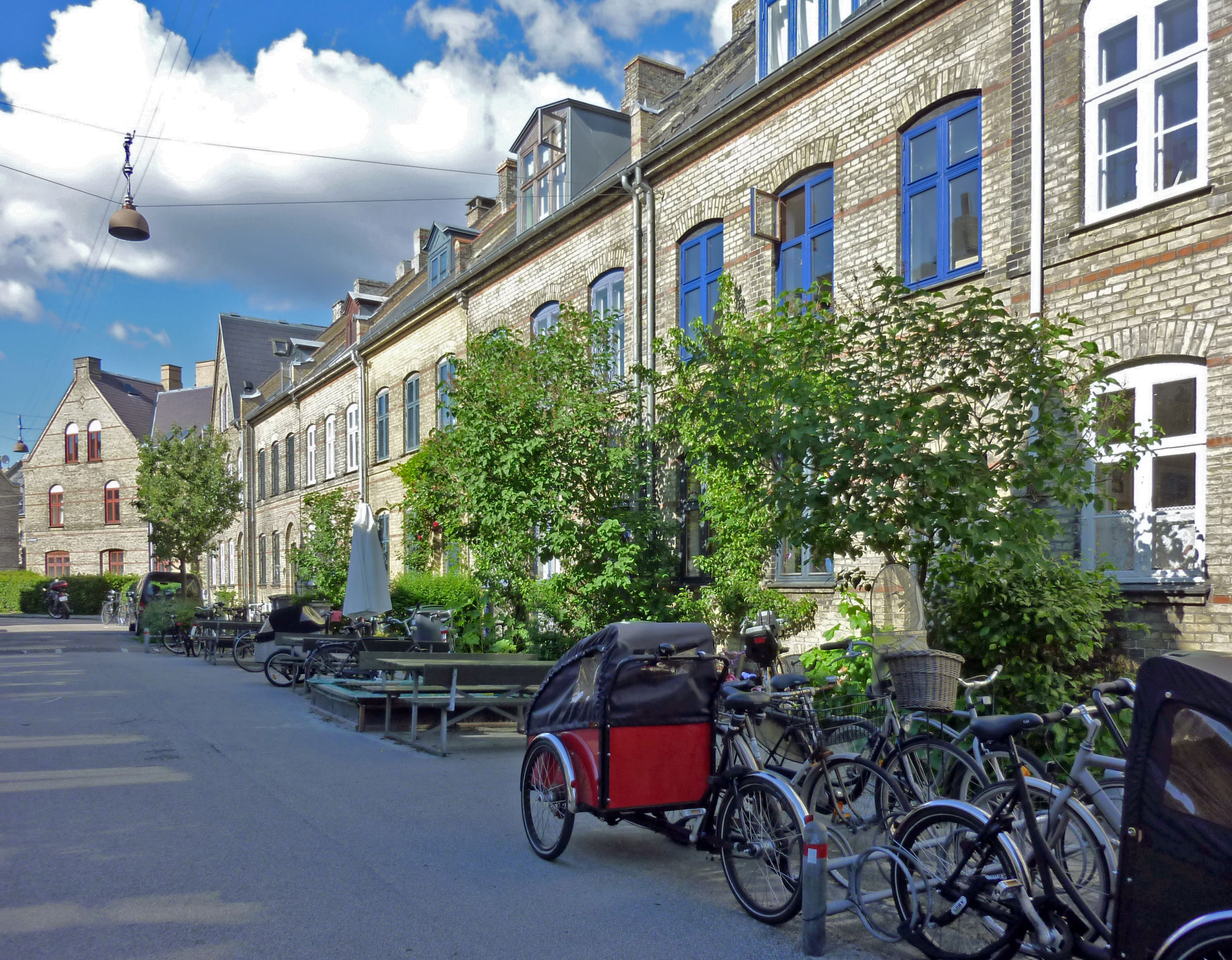 Jerichausgade in the row house area known as Humleby in the Vesterbro district of Copenhagen, Denmark